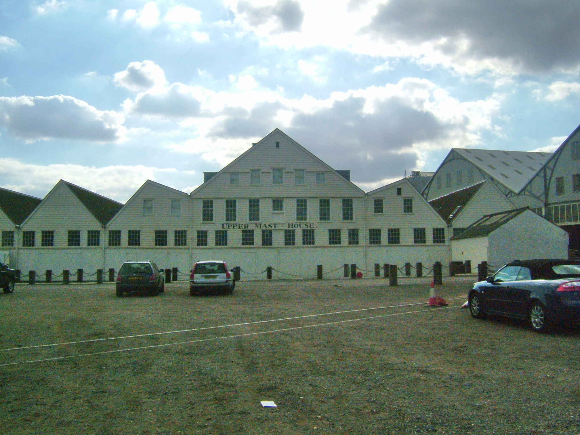 Chatham Dockyard, Kent, England has the finest collection of 18th and 19th century naval dockyard buildings many of which are scheduled as ancient monuments. Mast House and Mould Loft. On the ground floor masts were made and stored. In the mould loft, the lines of the ship were drawn on the floor- and patterns (templates) made. It was here that the lines for HMS Victory were laid down. Built between 1753-8. This is a timber building with ship lap cladding.